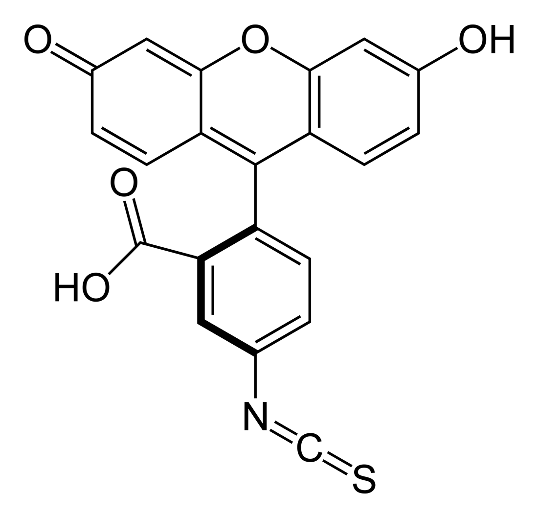 Skeletal formula of fluorescein isothiocyanate